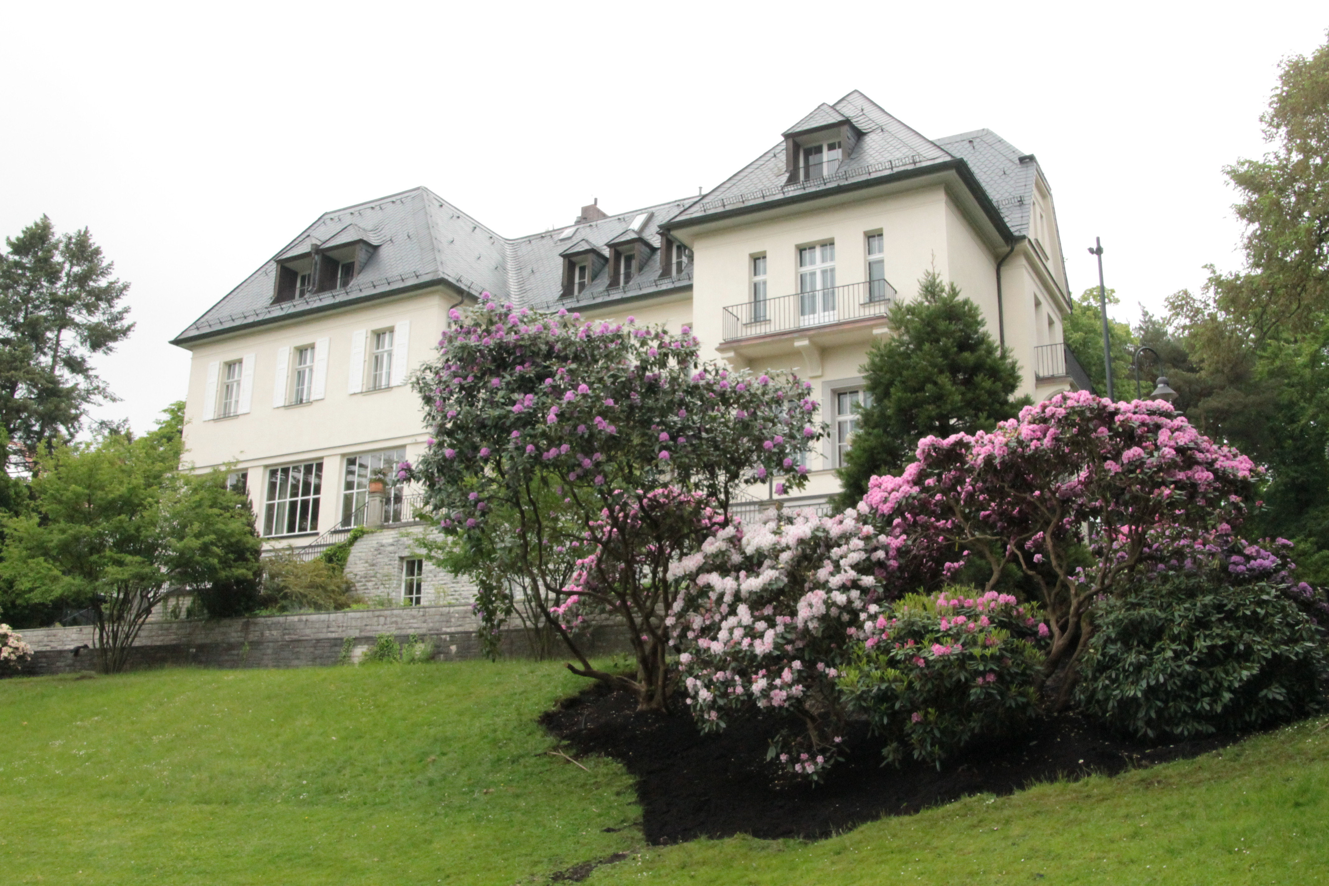 A view from the back yard of the American Academy in Berlin to the villa. Photo: Annette Hornischer / American Academy in Berlin